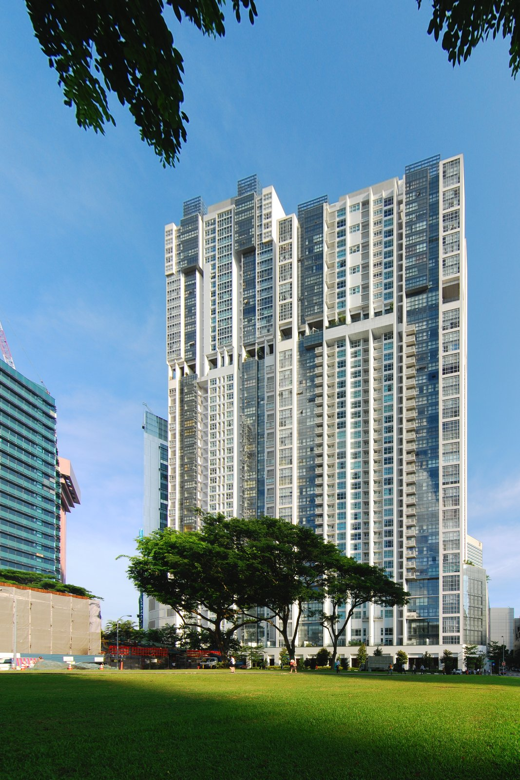 The Icon, residential development in Tanjong Pagar, Singapore